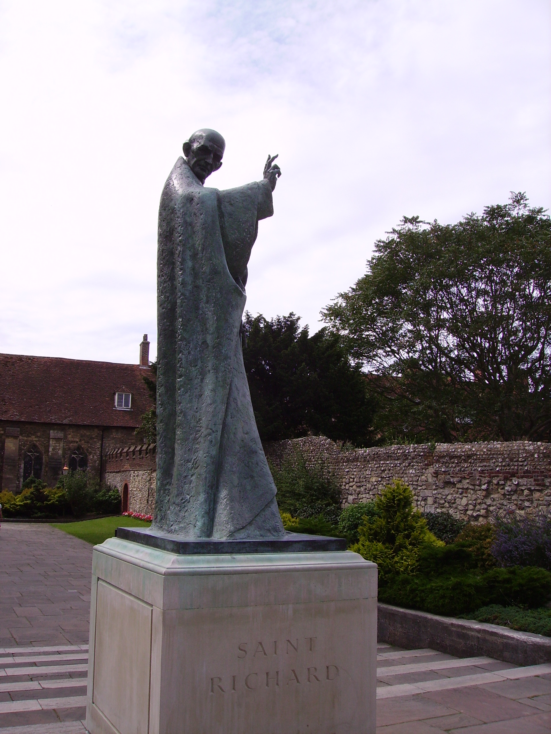 view of Chichester, United Kingdom